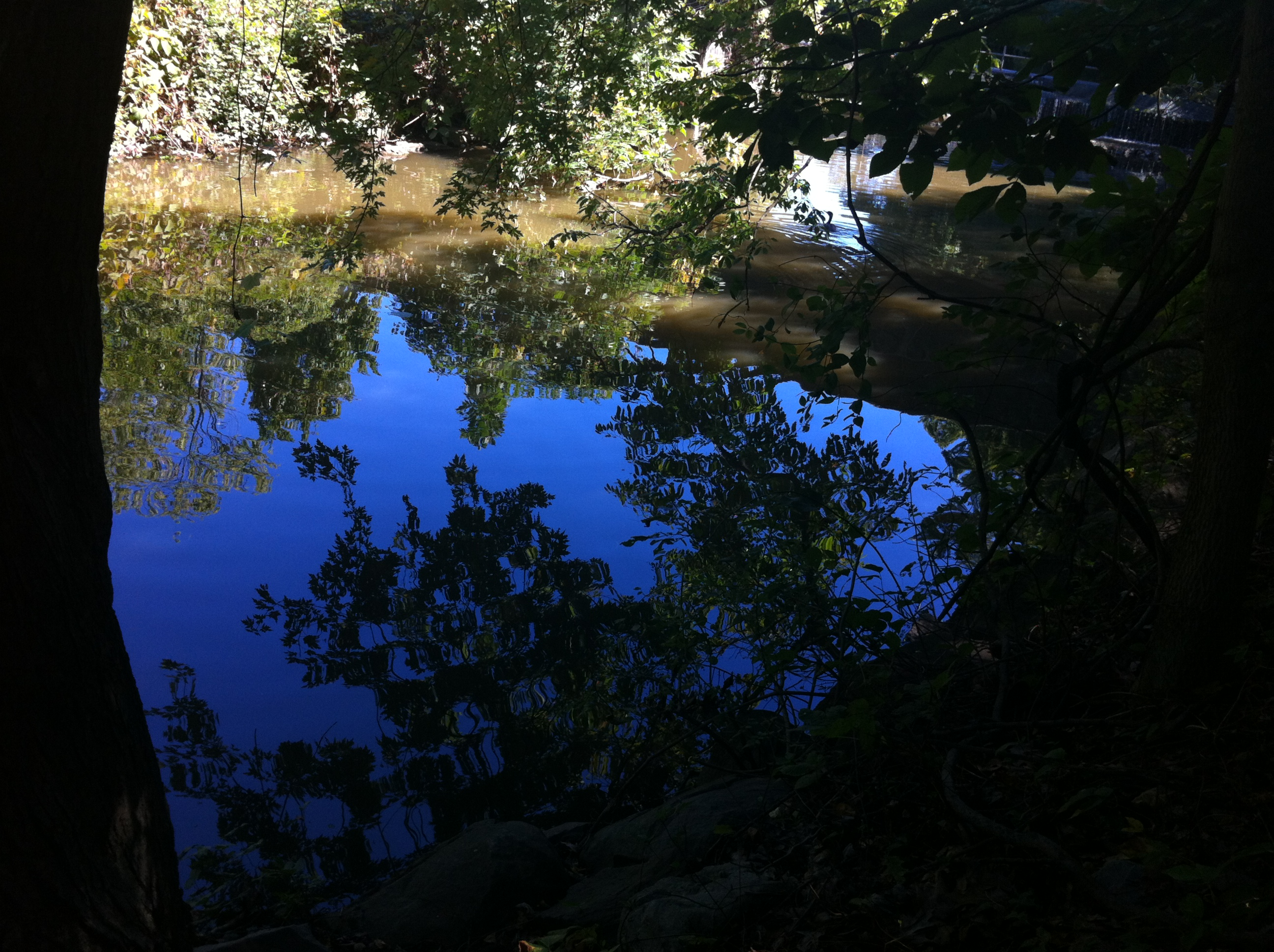 Clove Lakes park, Staten Island NY